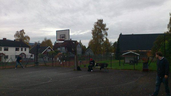 Shootin' hoops at Suttestad